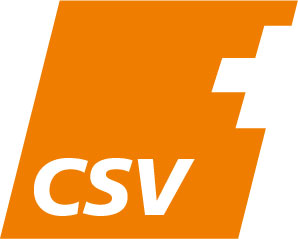 Logo der Christlichsozialen Vereinigung Schweiz (CSV)